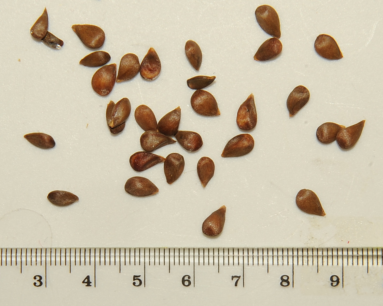 Seeds (apple-pips) of crab apple (Malus sylvestris)